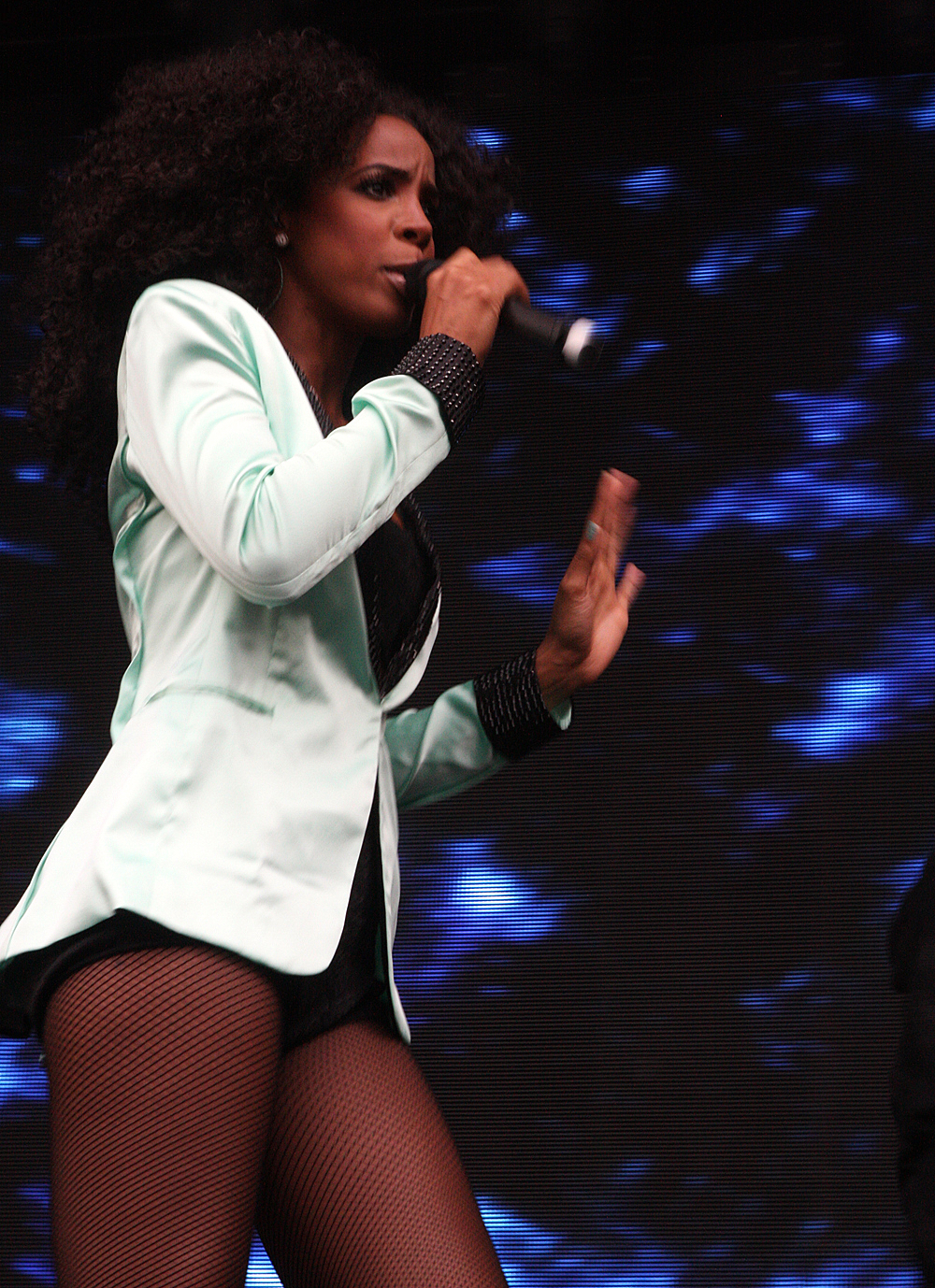 Kelly Rowland Performs at Supafest 3 Sydney, Australia 2012.